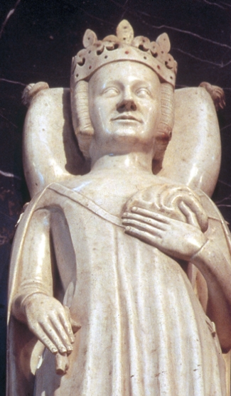 Grave of Joanna of Bourbon